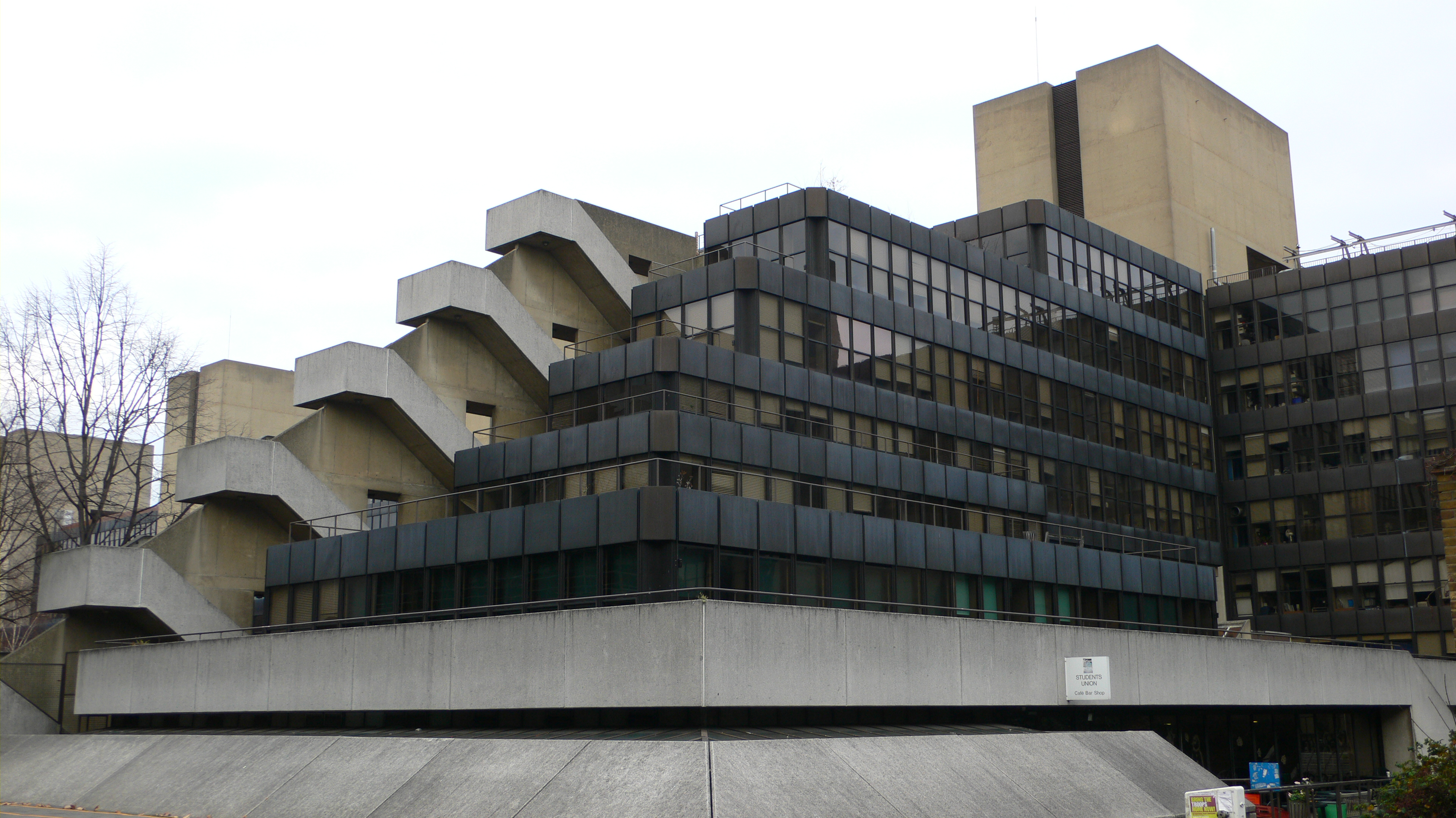 Institute of Education, Denys Lasdun architect London